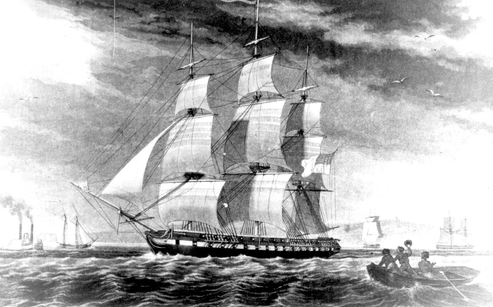 USS Hudson, American frigate